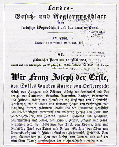 an historical document from 1851 showing titles of Habsburg emperor Franz Joseph I. Serbian: istorijski dokument iz 1851. godine, koji pokazuje titule habsburškog cara Franje Josifa I.